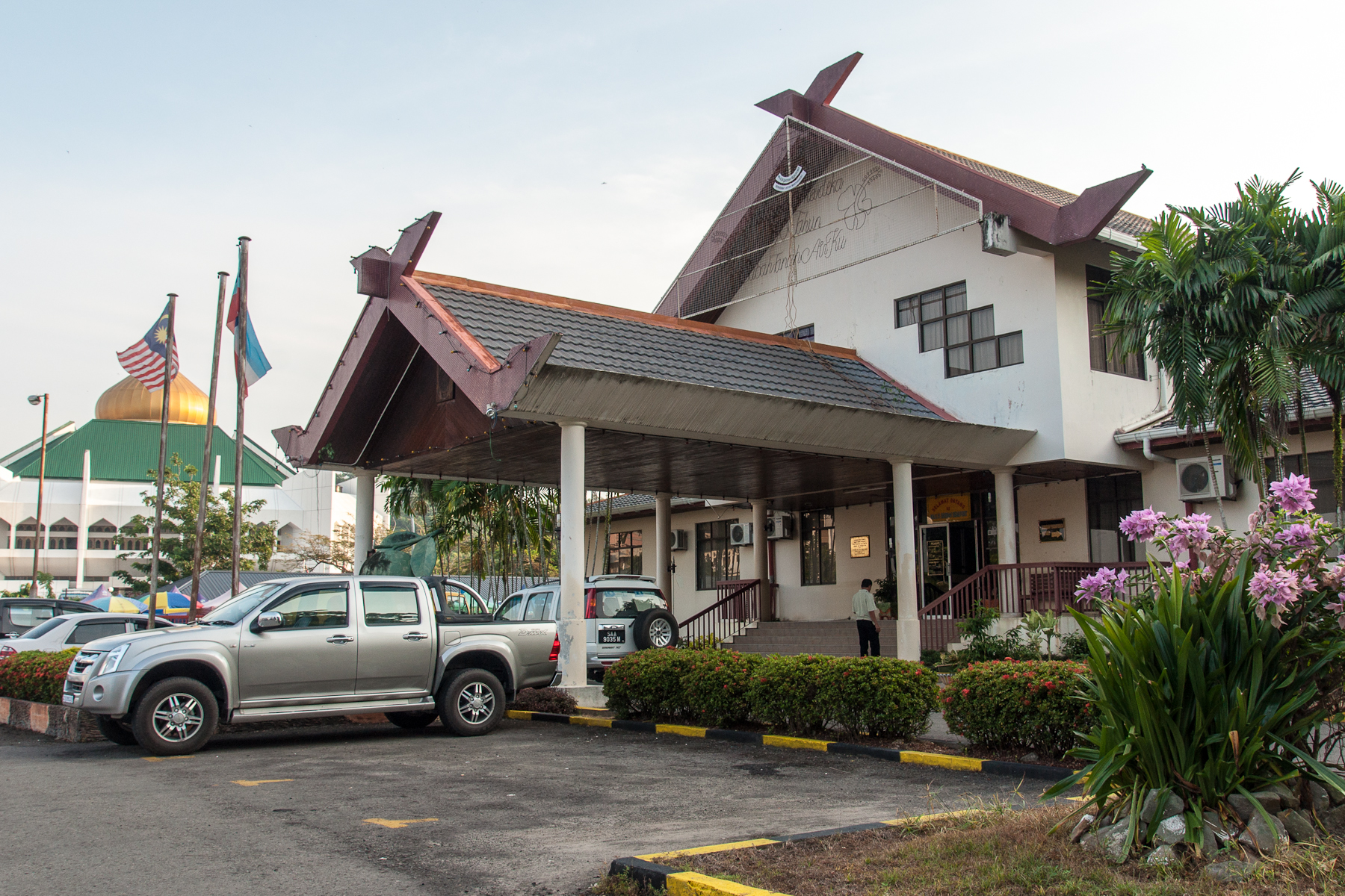 Beaufort District Council (Majlis Daerah Beaufort)